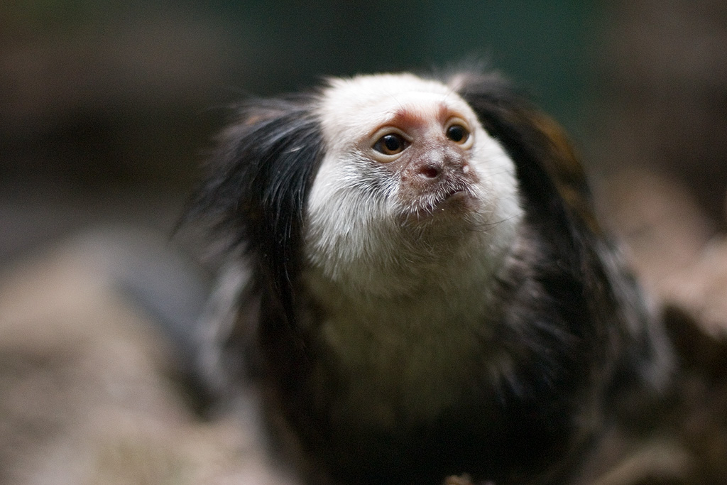 Geoffroy's tufted-eared marmoset, National Zoo, Washington, DC.